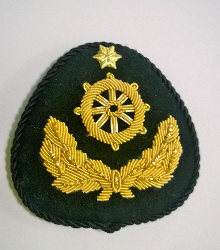 Rank insignia of the Finnish Navigation Association. The single star denotes the lowest rank of Archipelago Skipper.